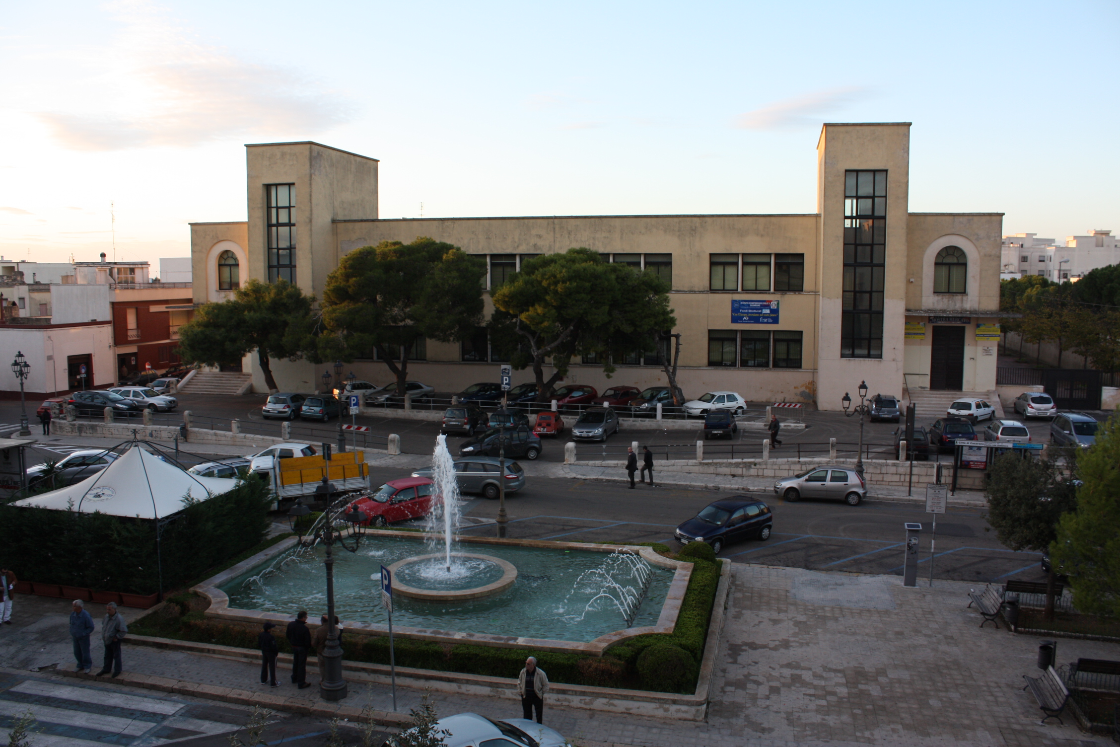 Casarano - St. Domenico square - School building